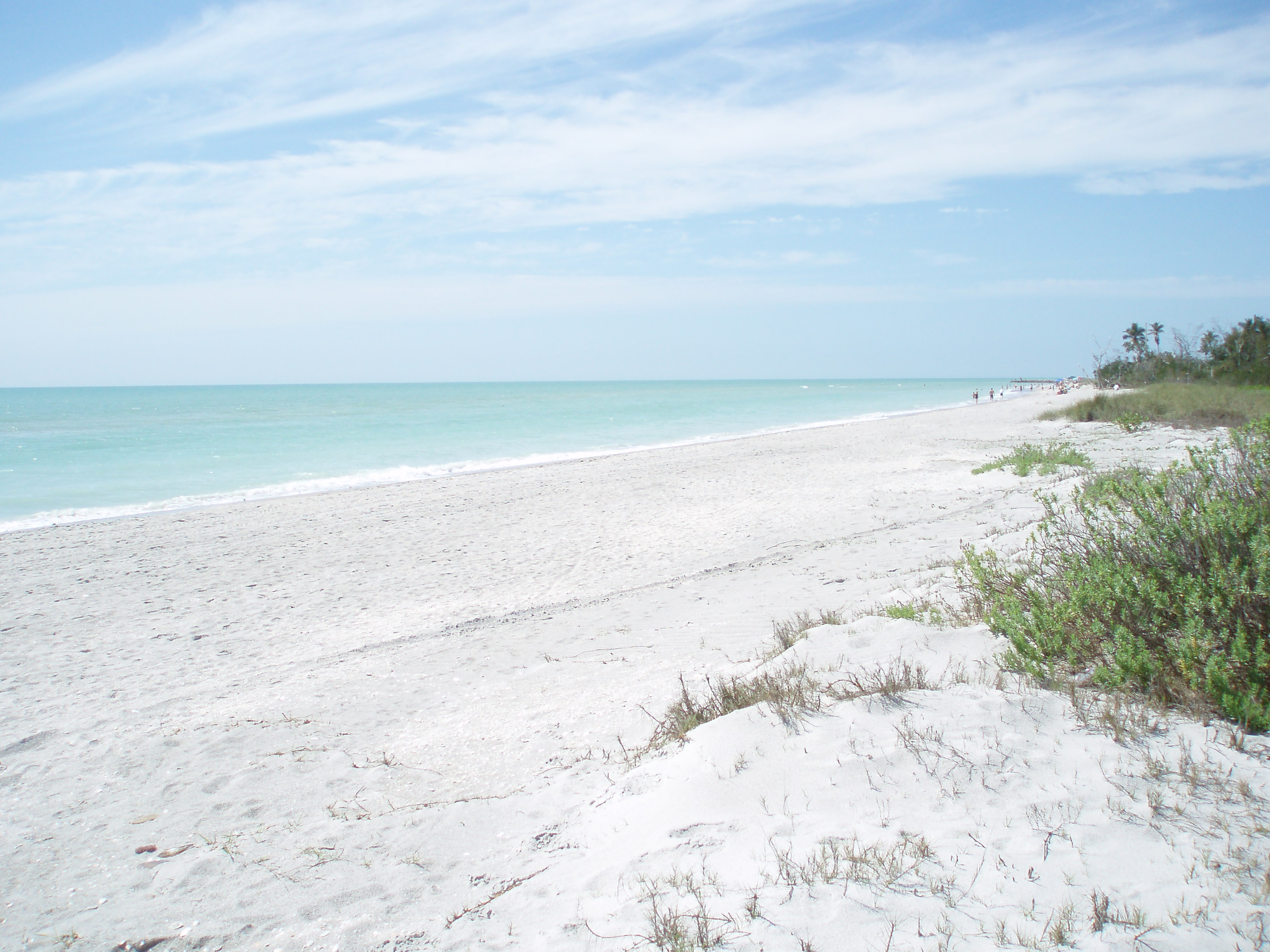 Beach at Wulfert, Sanibel Island, Florida, looking north towards Captiva Island